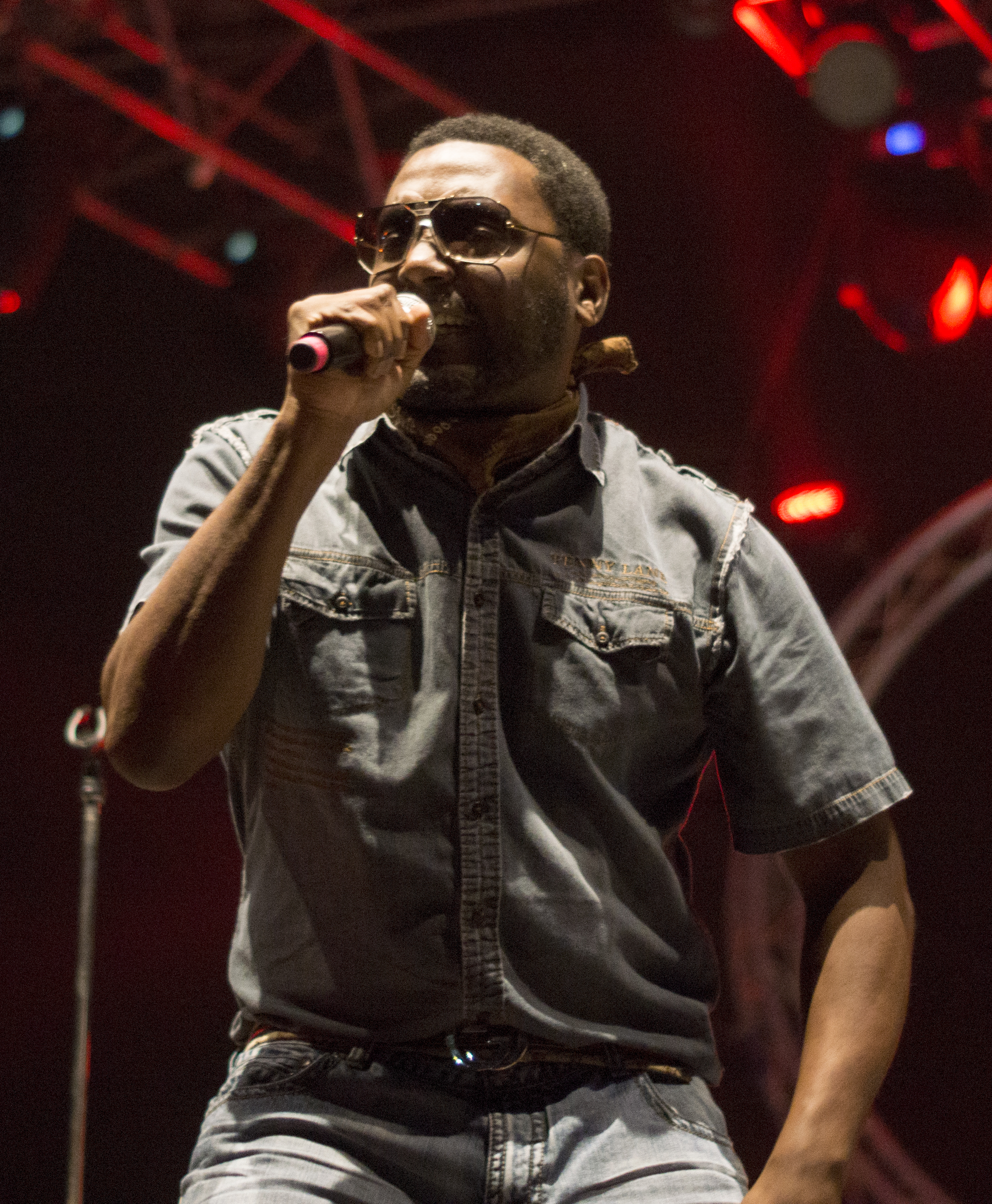 Big Daddy Kane performing at the Hip-Hop Kemp in Hradec Kralove in 2013.